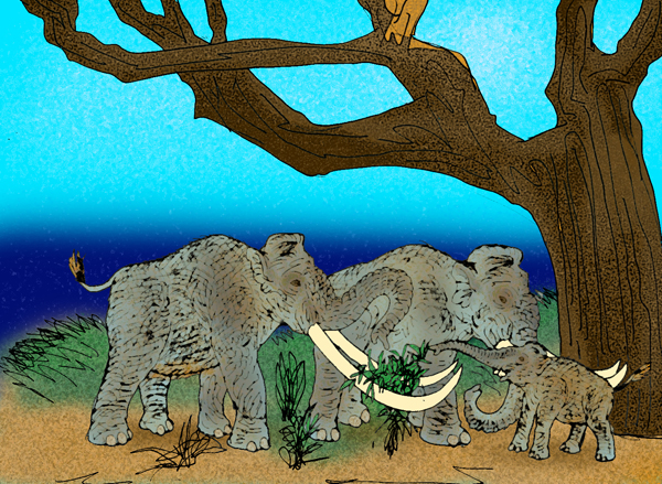 My reconstruction of the Channel Island Pygmy Mammoth, Mammuthus exilis, of Pleistocene California. (C) Stanton F. Fink